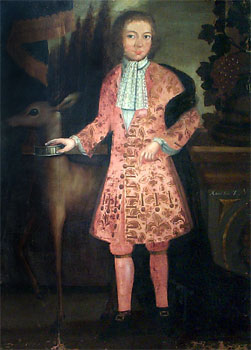 Portrait of Charles Carroll of Annapolis (1702-1782)